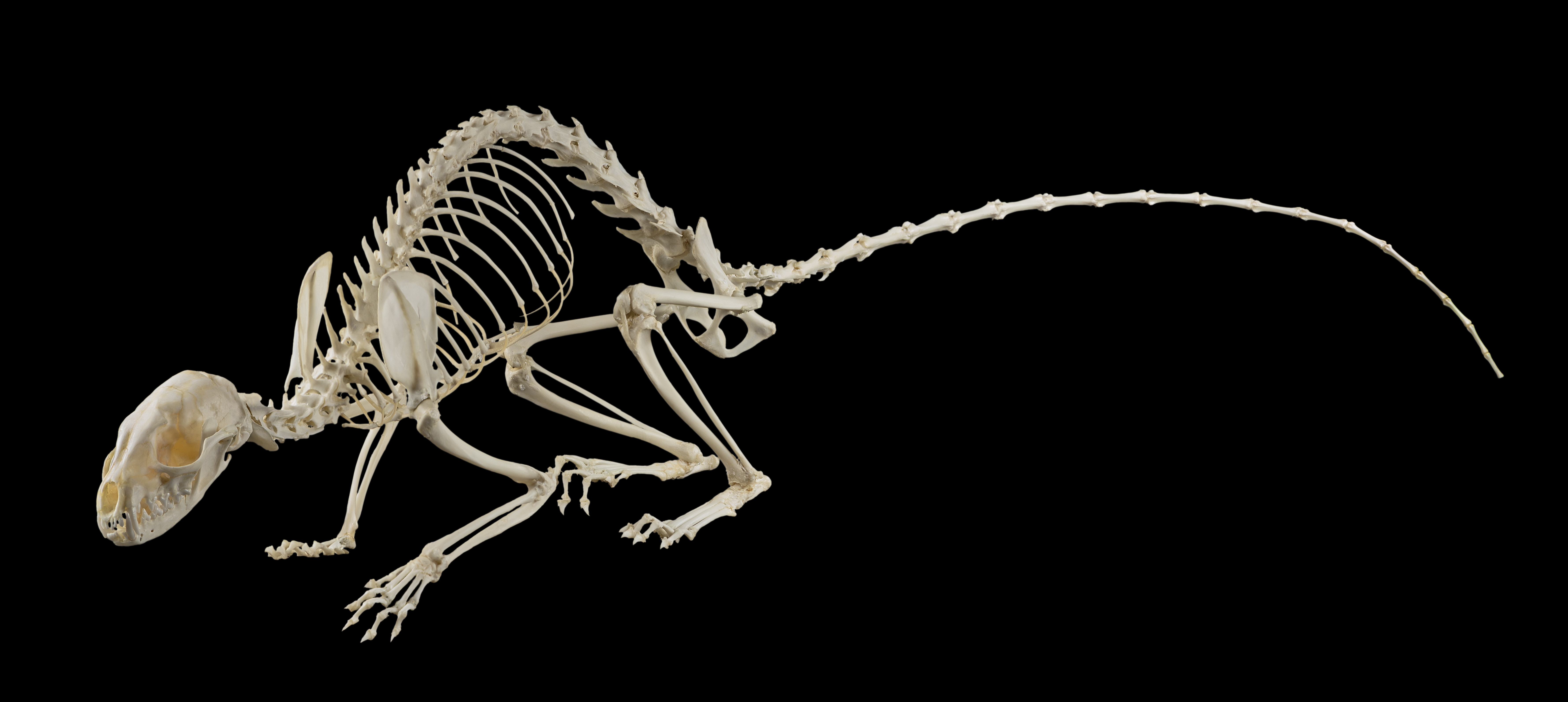 Skeleton of Beech marten.